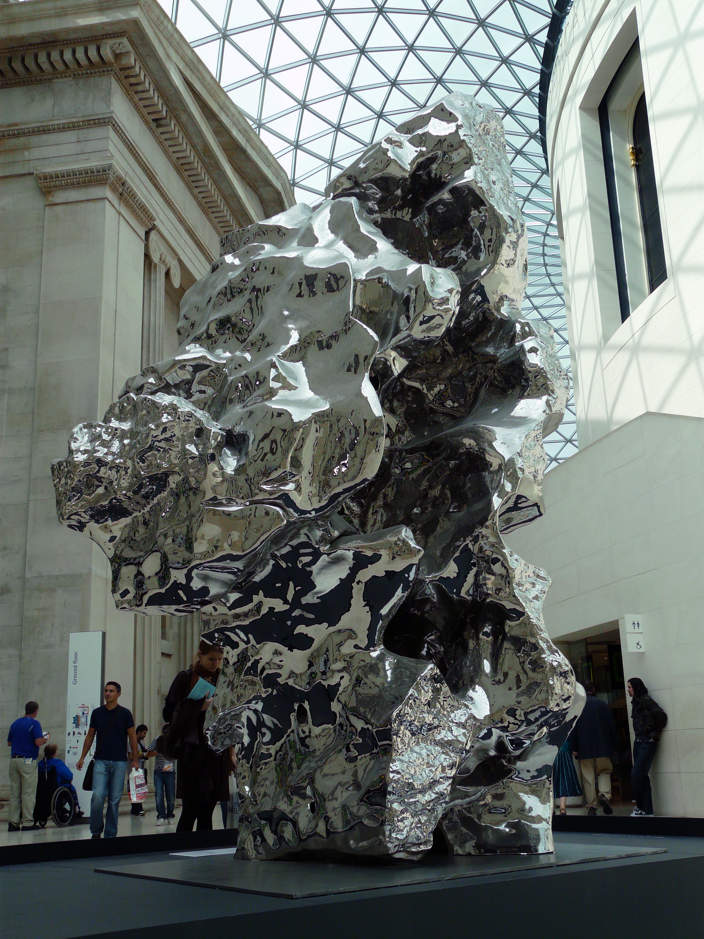 Rock Number 59 by Zhan Wang, seen in the lobby of the British Museum.